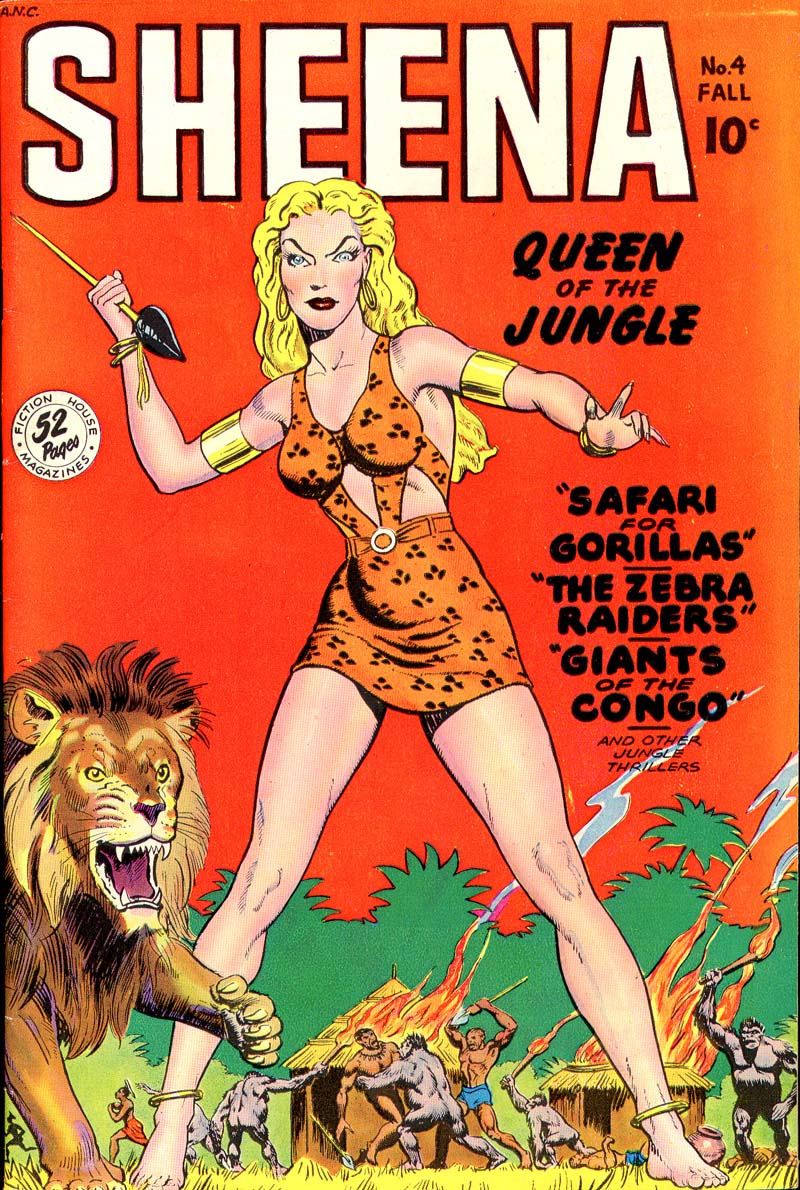 Cover scan of Sheena Queen of the jungle 4, 1942